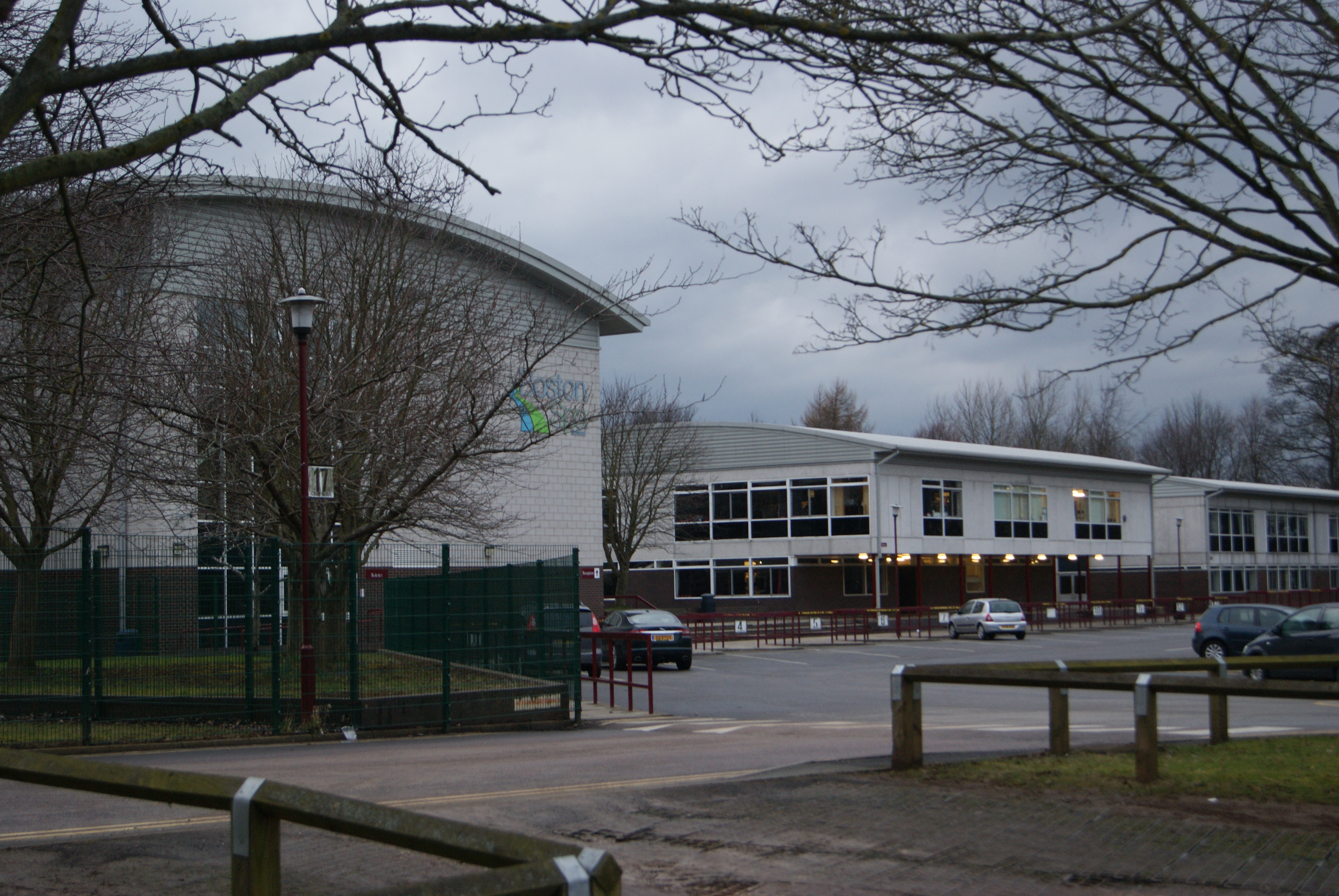 Boston Spa School (formerly Boston Spa Comprehensive School), Clifford Moor Road, Boston Spa, West Yorkshire. Taken on the evening of Wednesday the 24th of March 2010